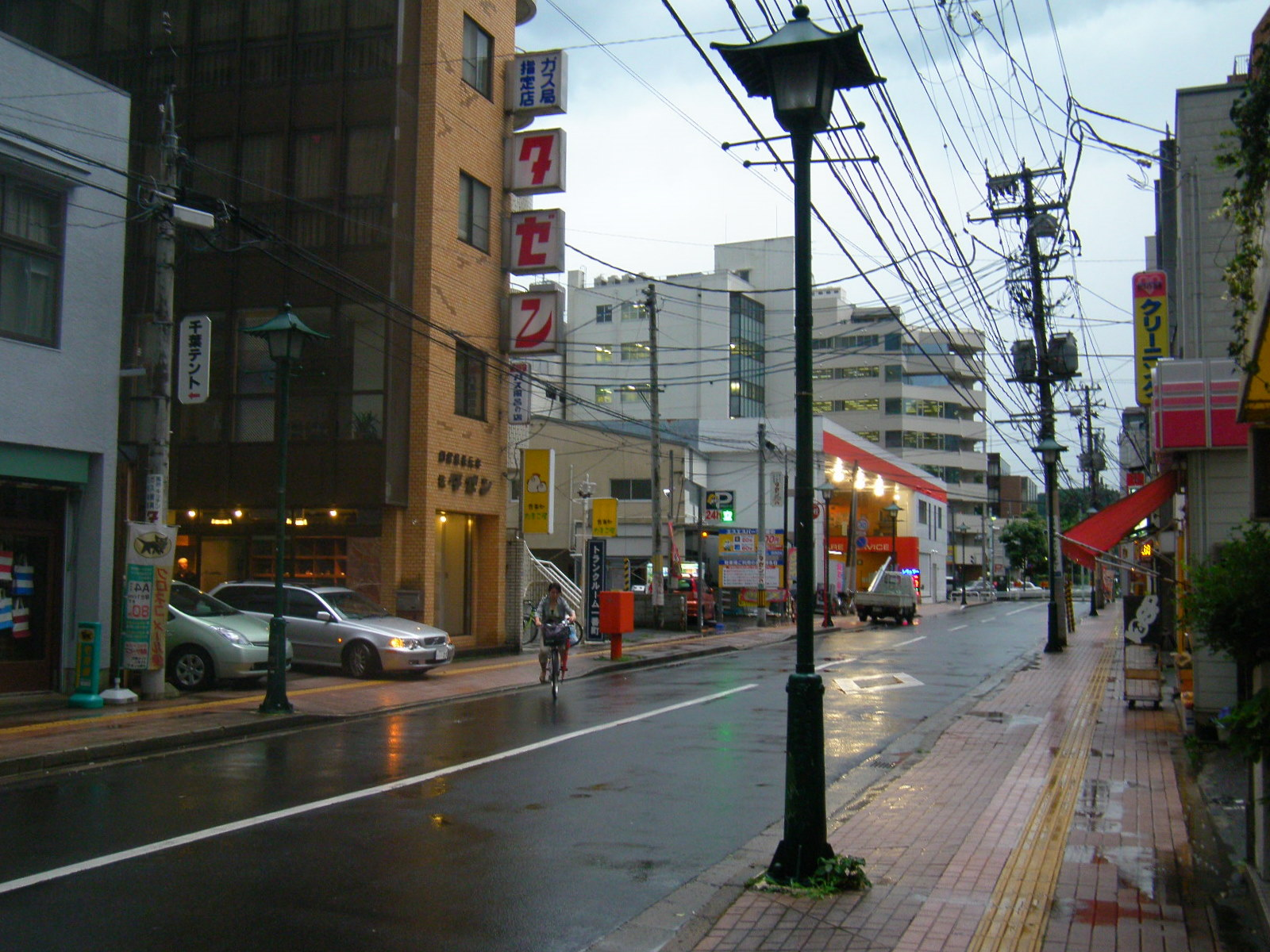 Yanagi-machi in Aoba ward, Sendai, Miyagi prefecture, Japan. Westward from the west of Dainichi-dō (Shrine of Vairocana).